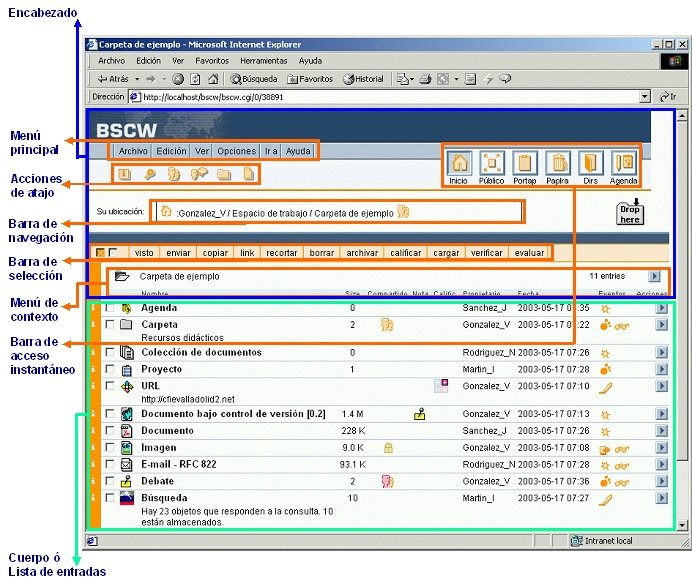 BCSW interface